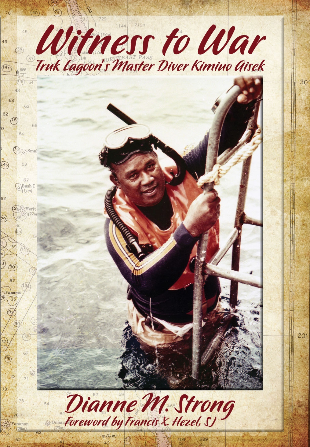 Biography of Kimiuo Aisek